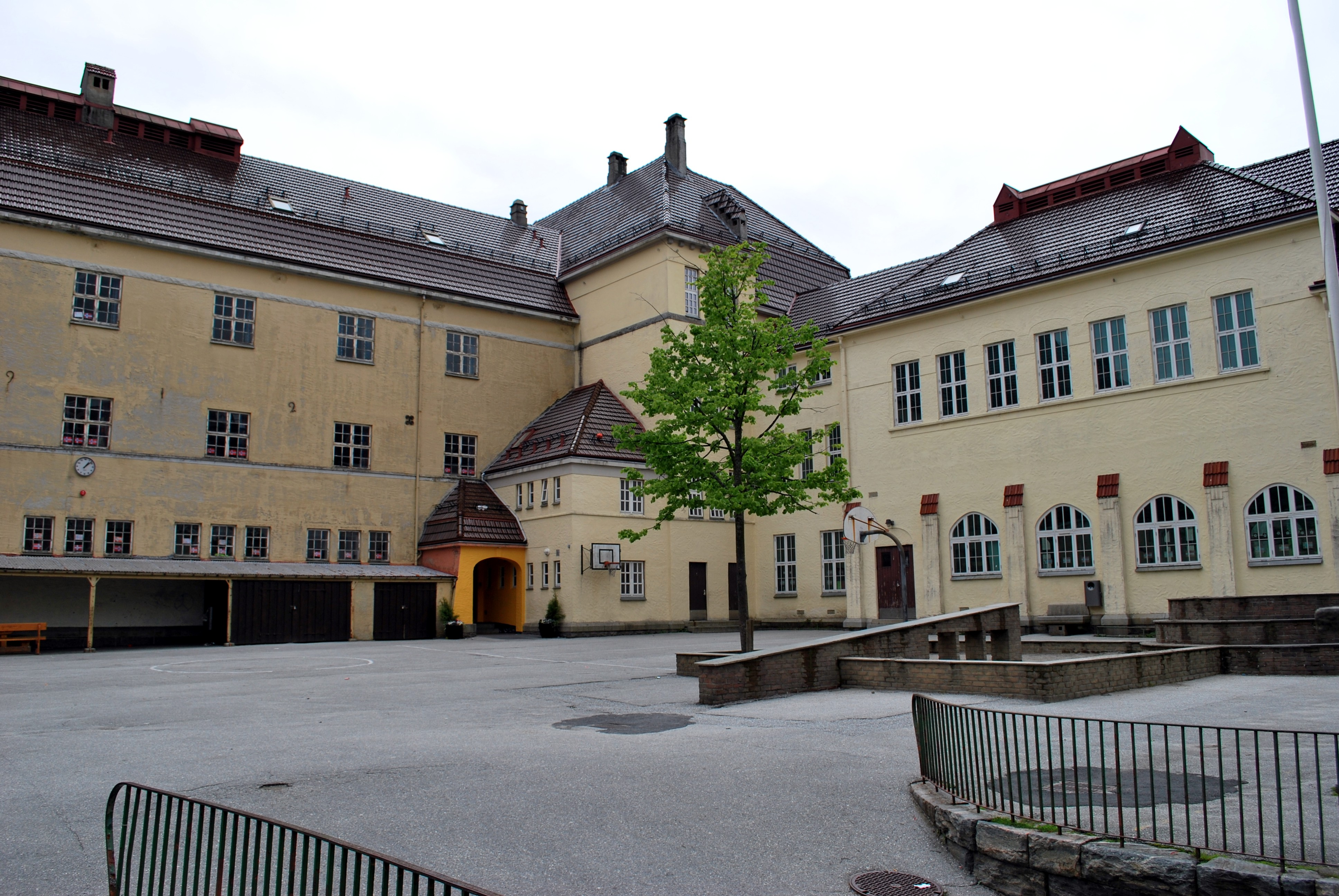 Møhlenpris skole, Bergen, Norway.